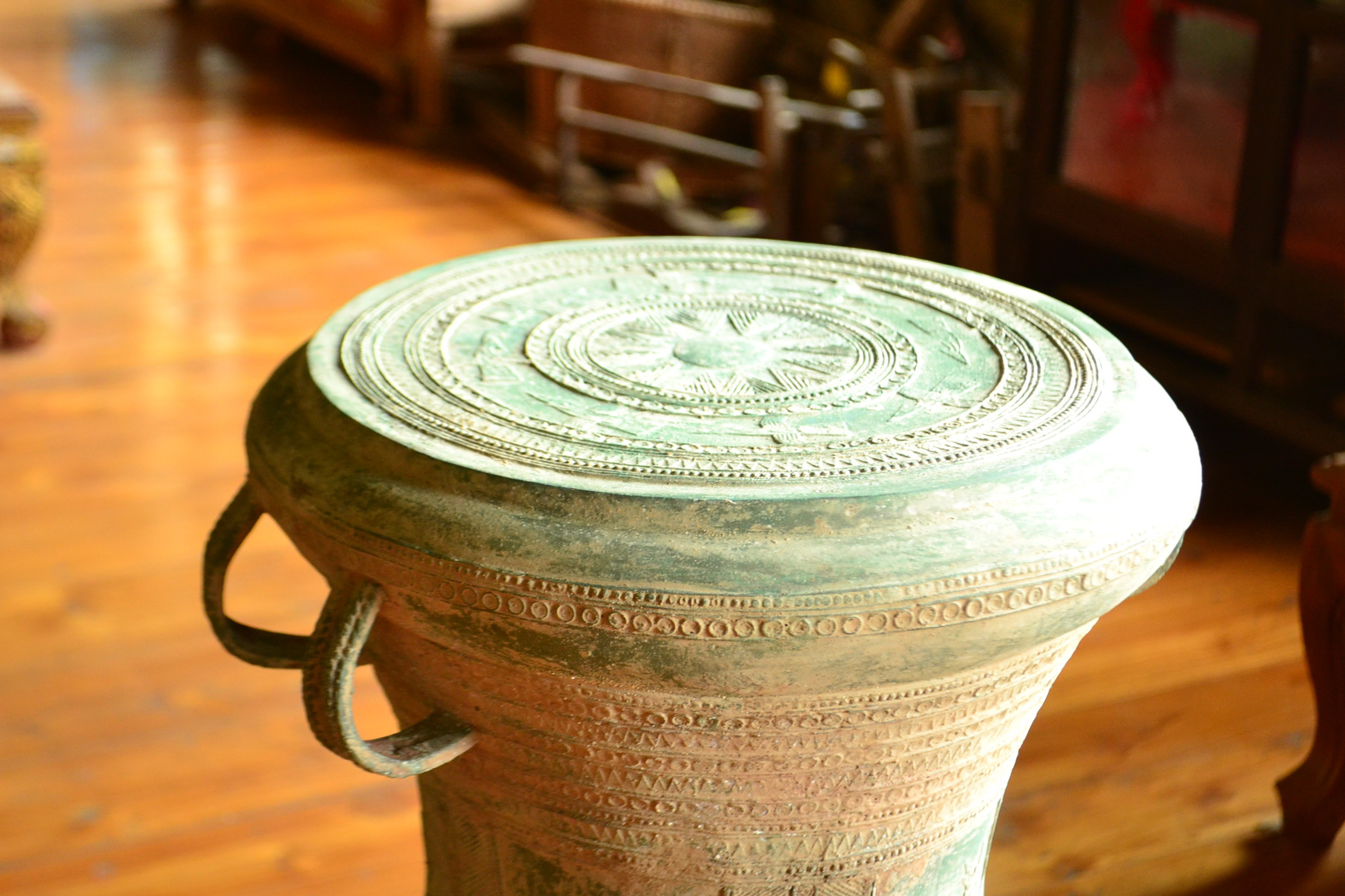 Dong Son bronze drum in Wat Kungtapao Local Museum. at Wat Khung Taphao, Ban Khung Taphao, Khung Taphao subdistrict, Mueang Uttaradit, Uttaradit Province, Thailand.) on December 2, 2012.